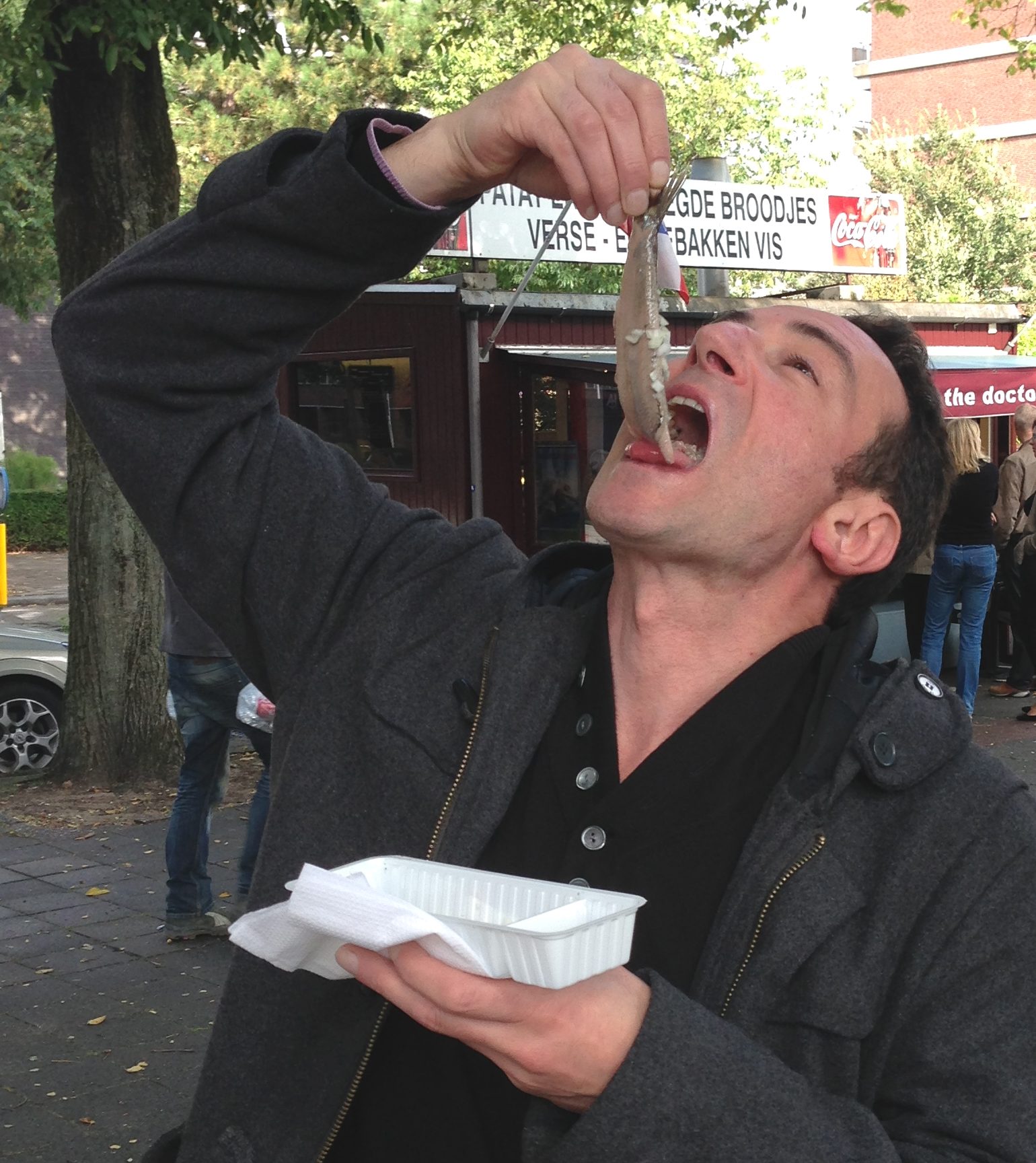 Maatjesharing eaten in the "Dutch" way. Modified.